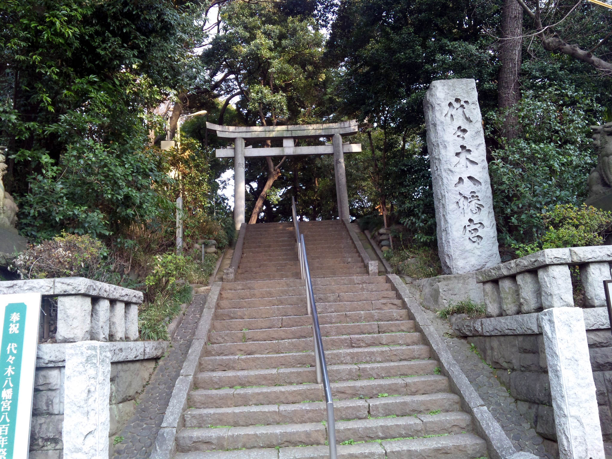 Yoyogi Hachiman